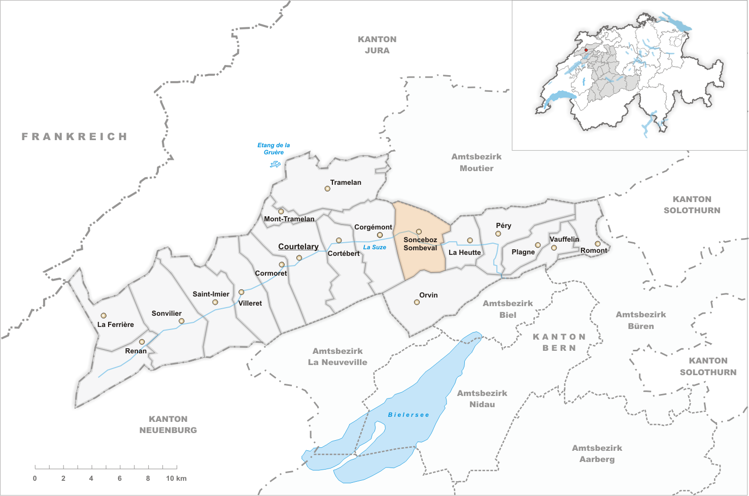 Municipality Sonceboz-Sombeval